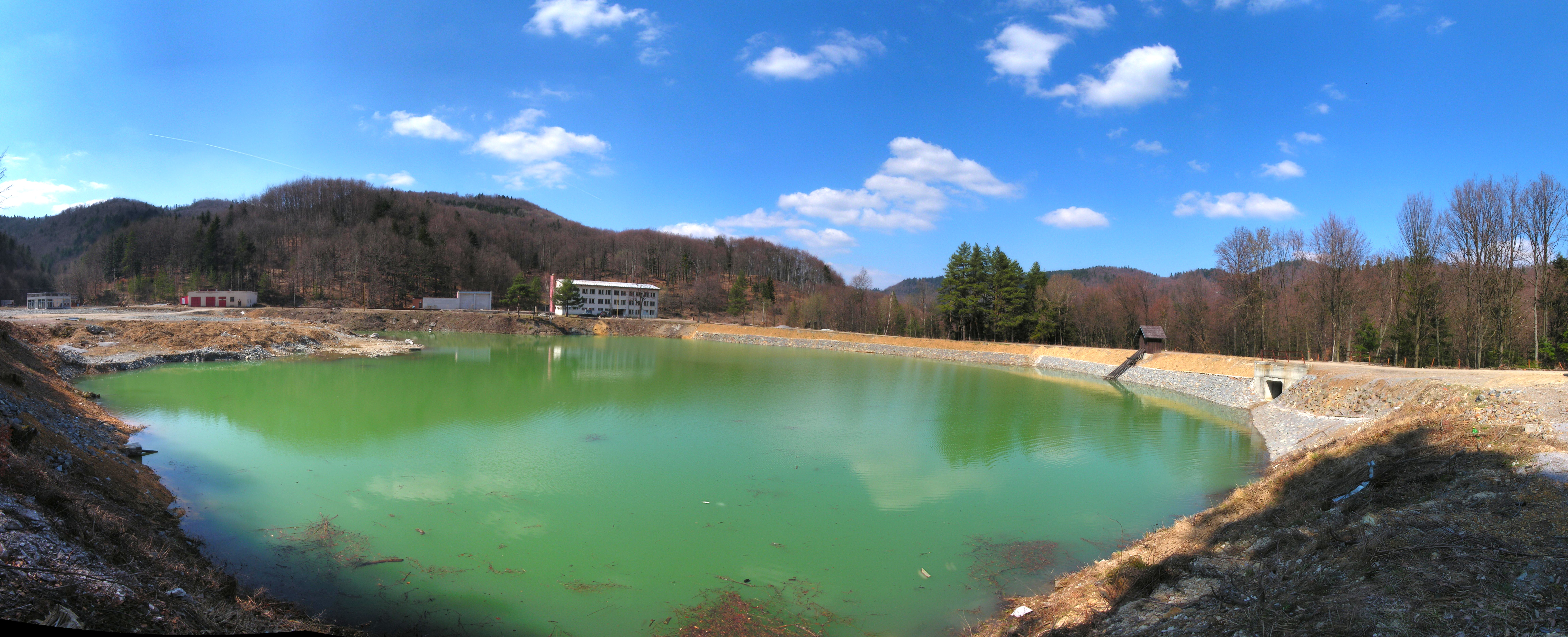 Upper Hodrusa Teich water reservoir panorama - full of water